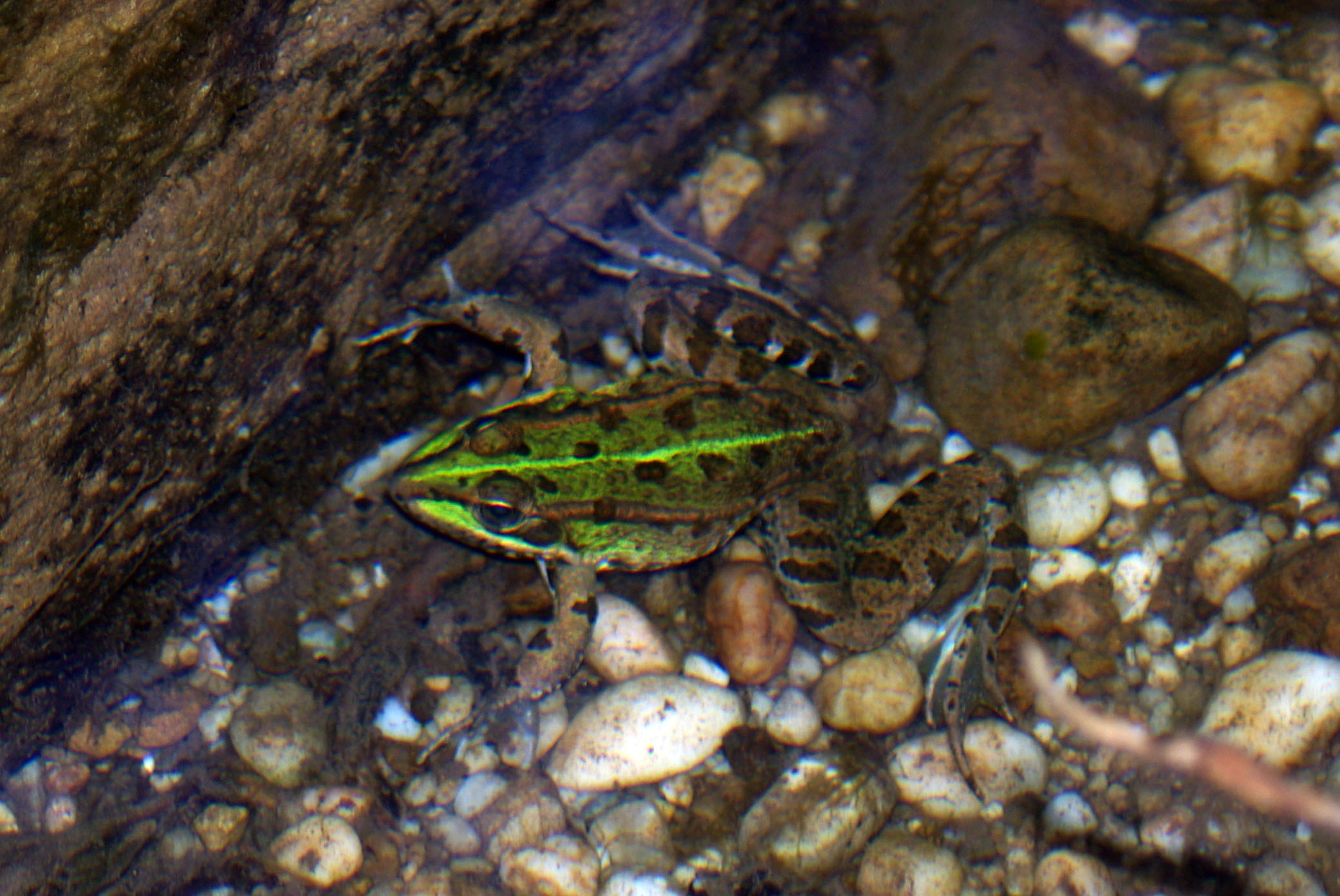 Perez's Frog (Pelophylax perezi). River Arlanza, Burgos (Spain)